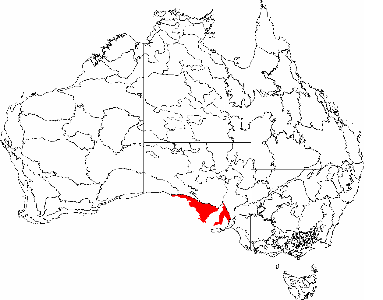 This is a map of the Interim Biogeographic Regionalisation of Australia (IBRA), with state boundaries overlaid. The Eyre Yorke Block region is shown in red.